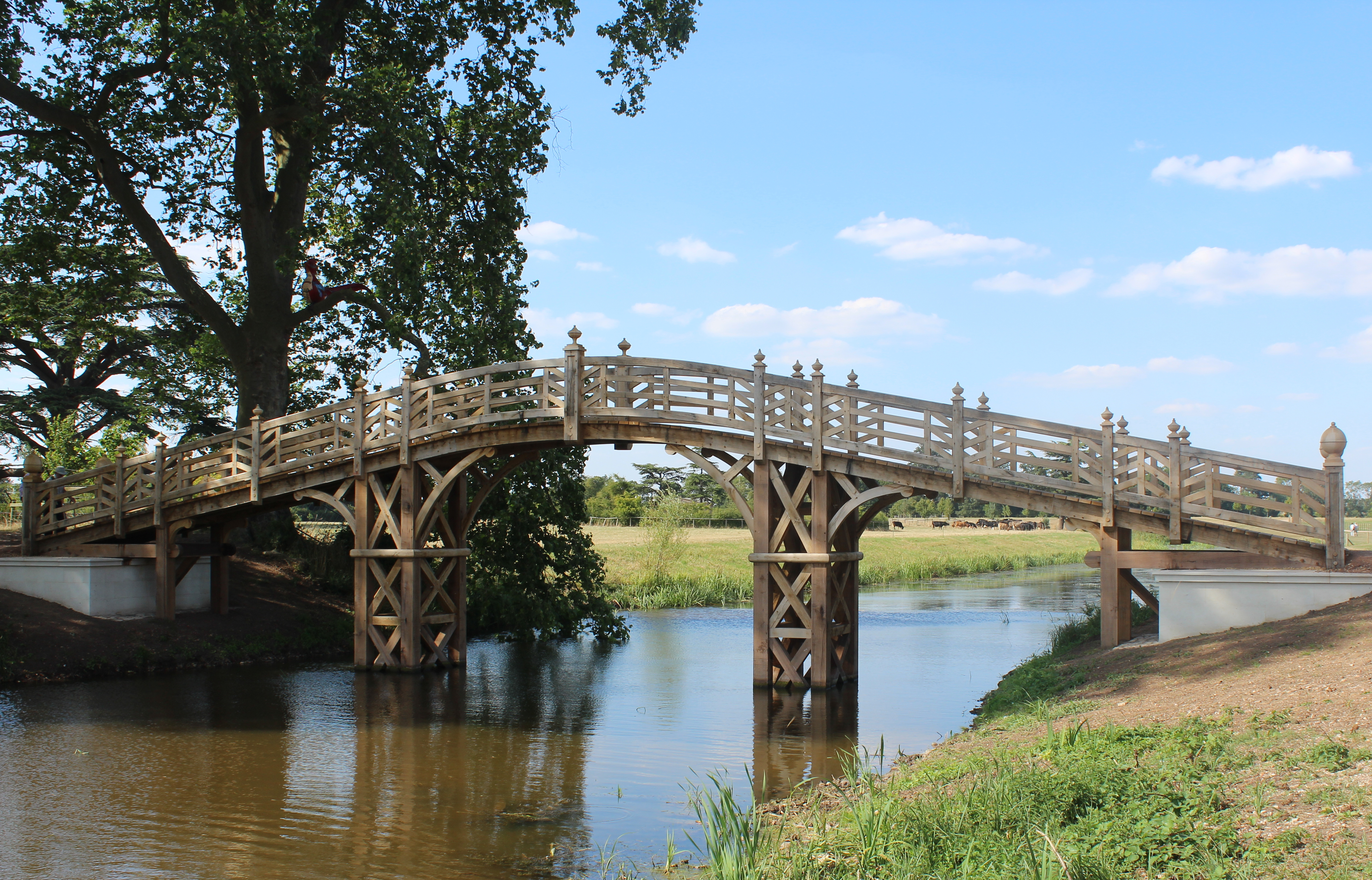 The Chinese Bridge at Croome Court replaces the original bridge that was built in the 1740s by William Halfpenny for the 5th Earl of Coventry.